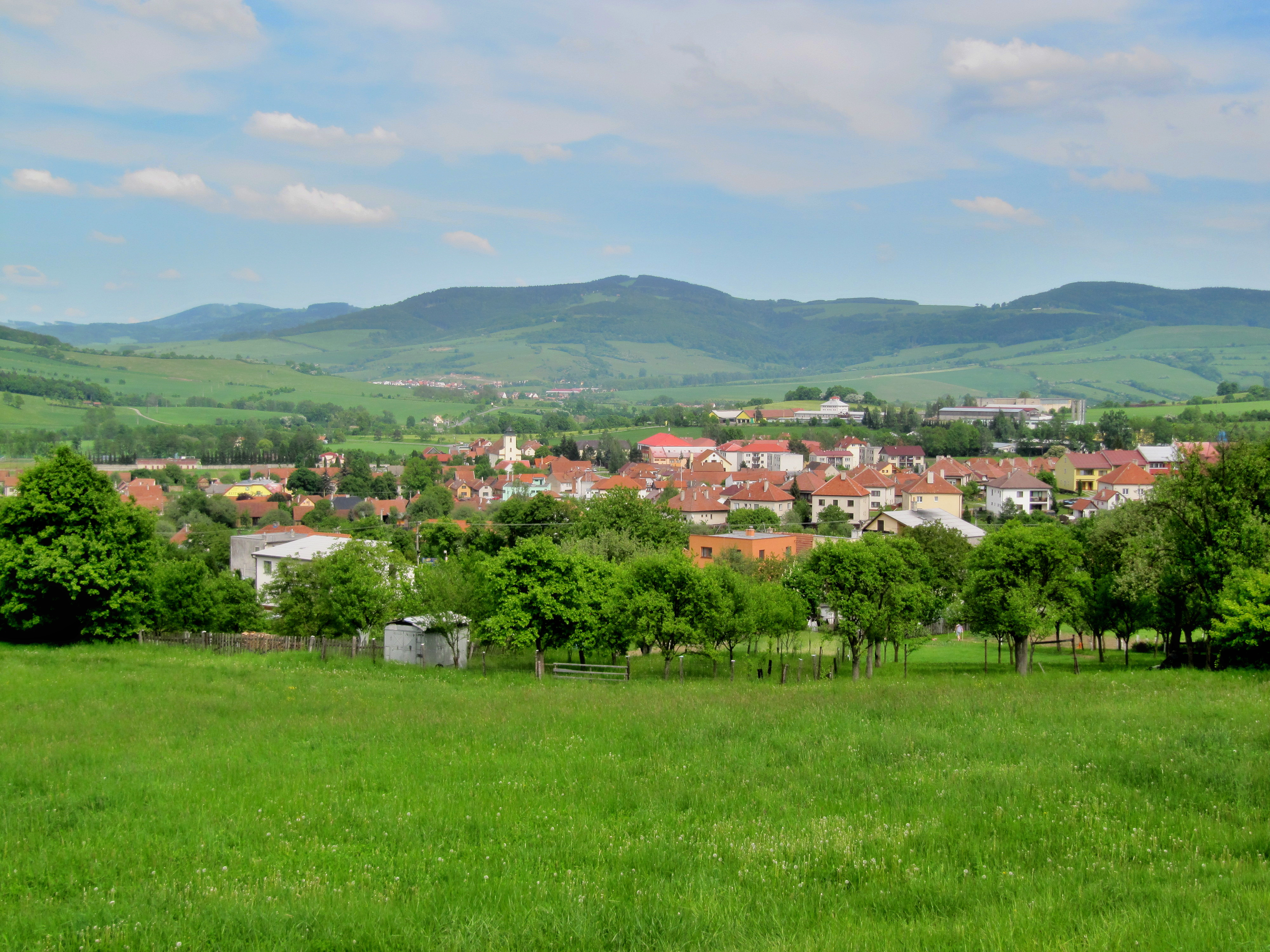 Štítná nad Vláří-Popov, Zlín District, Czech Republic, part Štítná nad Vláří.